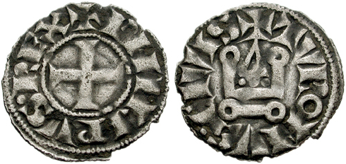 Kings of France. Philip II (1180-1223). AR Denier Tournois (19mm, 0.88 g). Struck circa 1270-1280. +PHILIPVS•REX, cross pattée TVRONVS•CIVIS, châtel tournois. Duplessy 204; Ciani 167 (Philip II).